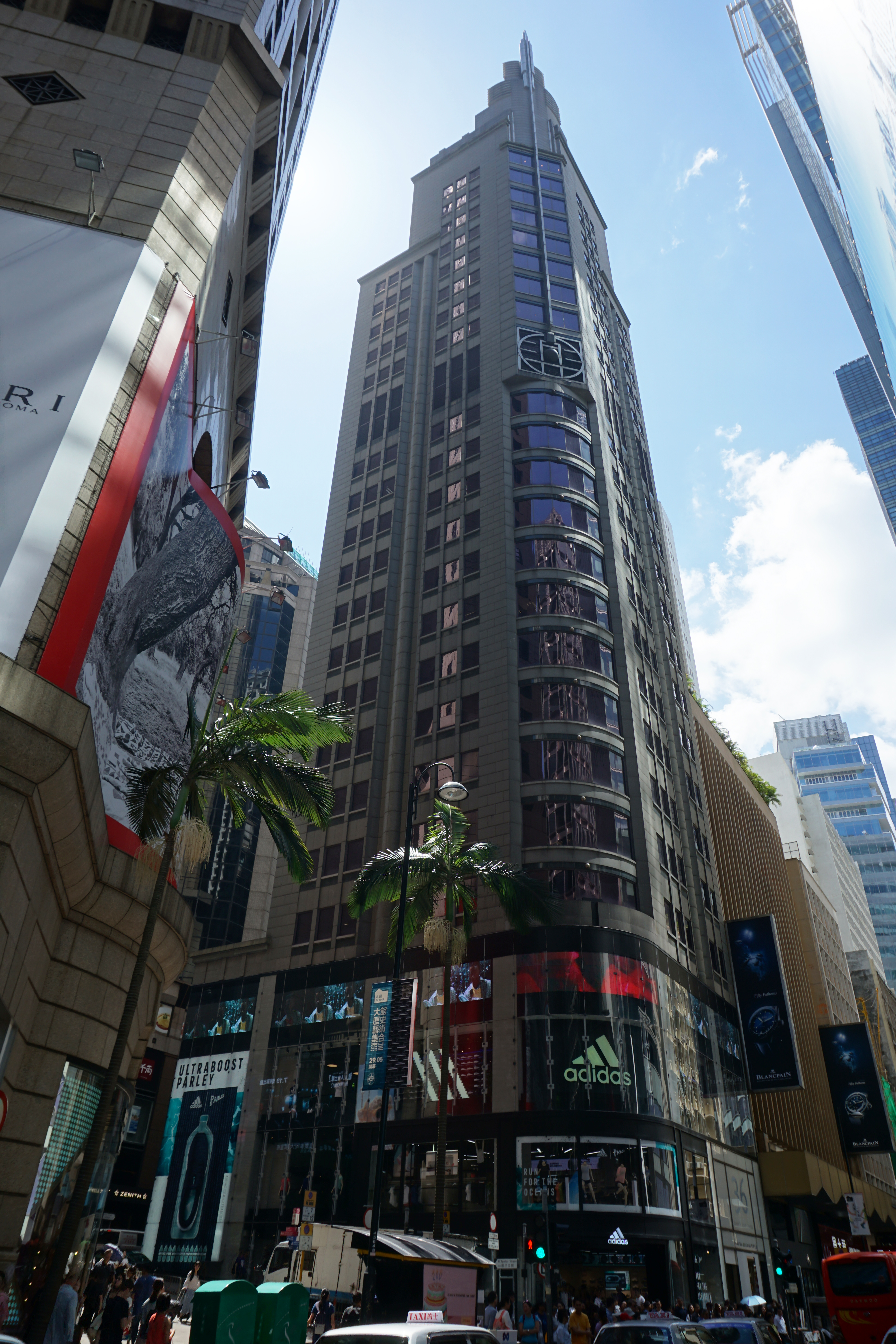 Hing Wai Building in Central, Hong Kong.